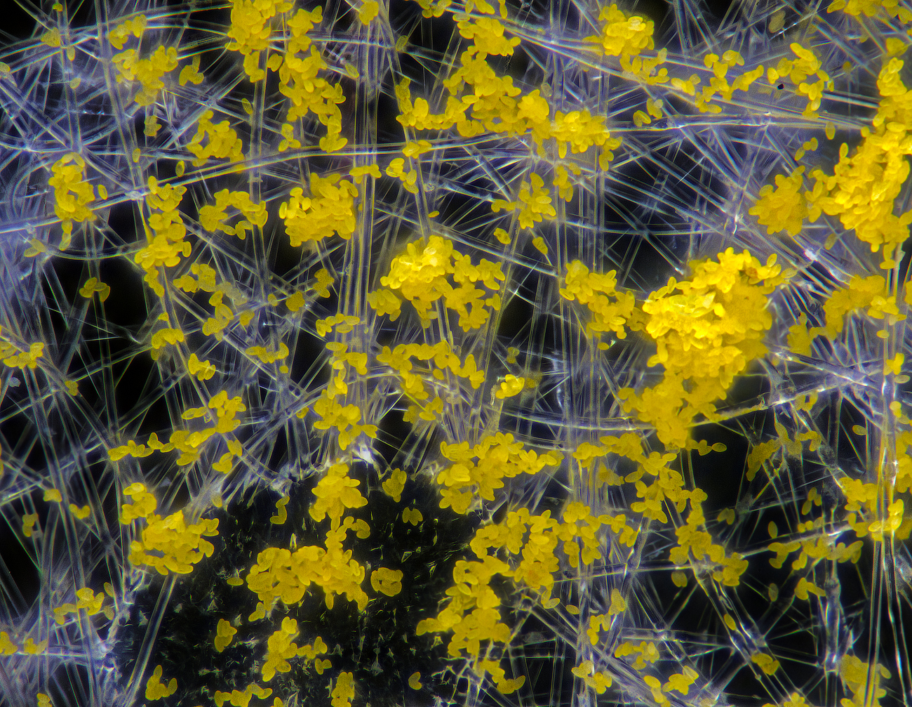 Pollen particles on the spanbond of outer layer of medical mask